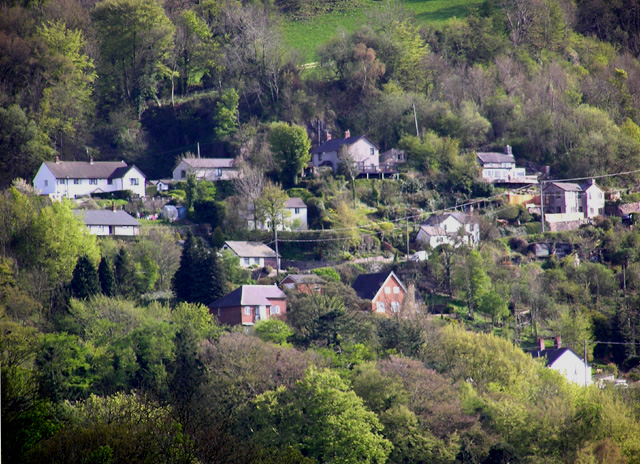 Froncysyllte Village Detail, near to Froncysyllte, Wrexham/Wrecsam, Great Britain. A long lens view showing part of the west side of the village. The land here slopes steeply in a northerly direction down to the Afon Dyfrdwy (River Dee)